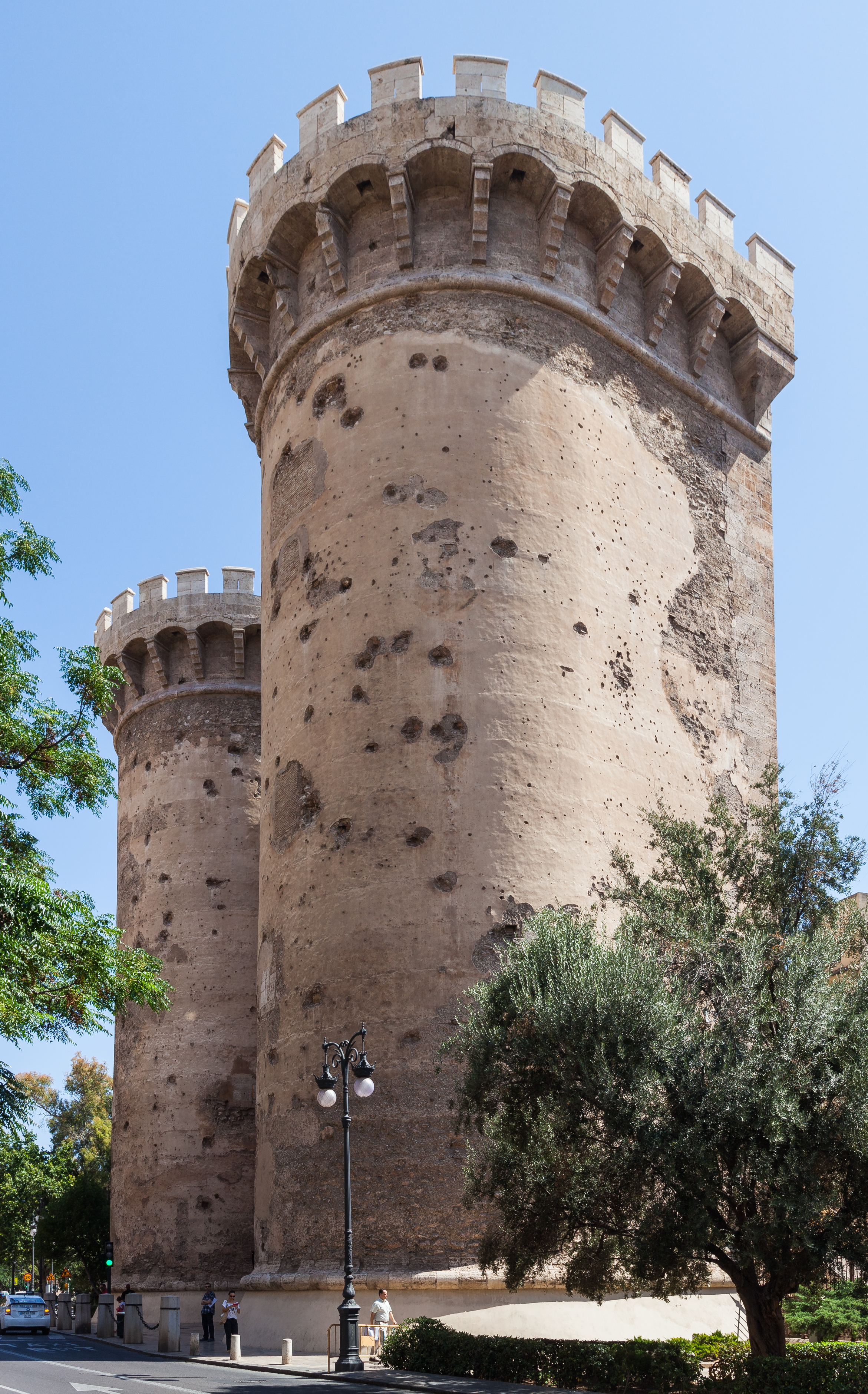 Cuart Towers, Valencia, Spain